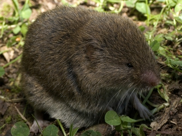 Image of Microtus lusitanicus.